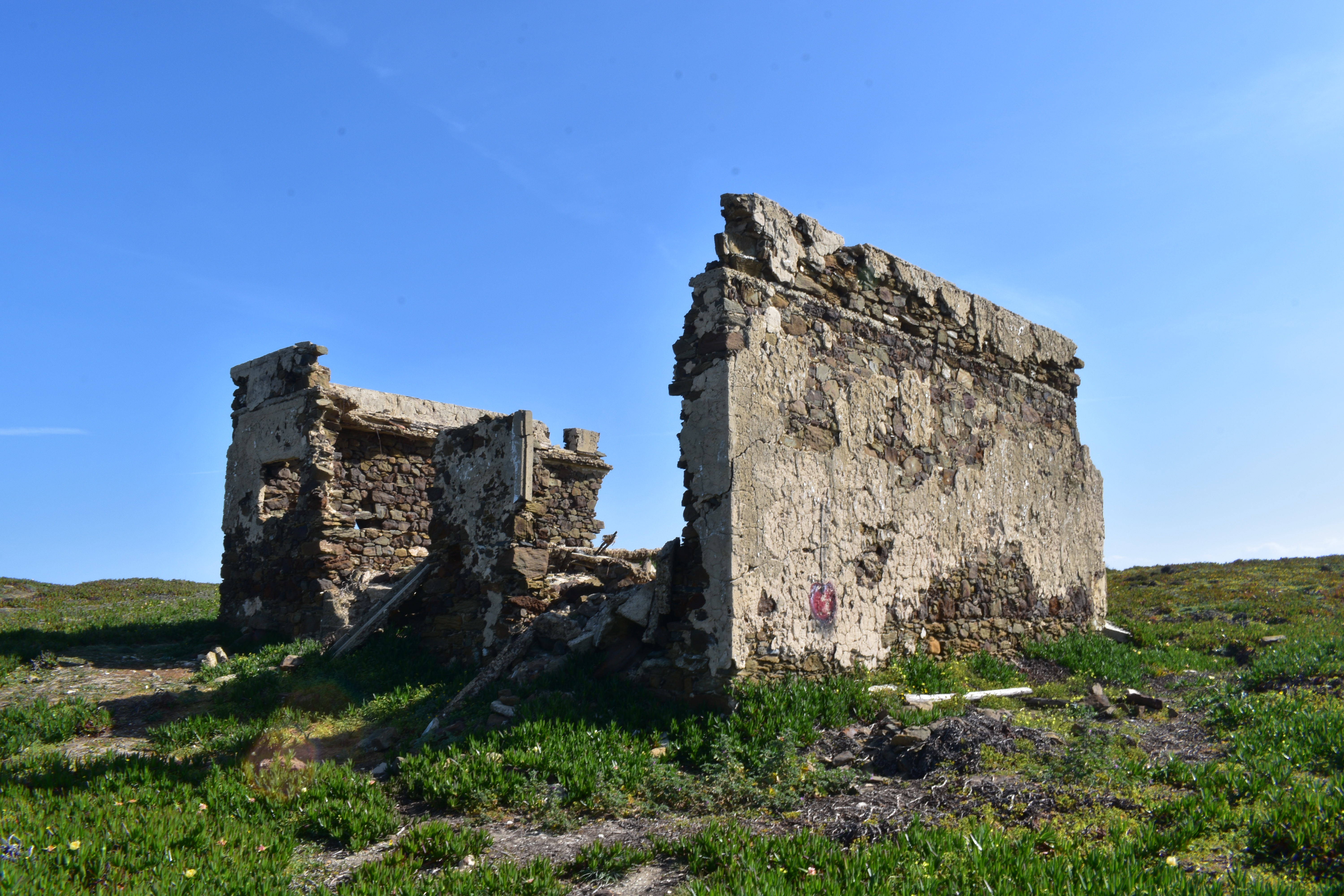 Former border guard outpost near the ruins of the Arrifana Ribat, in Algarve, Portugal.